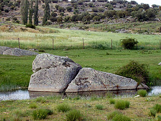 View of the small river of Mediana at Tolbaños.